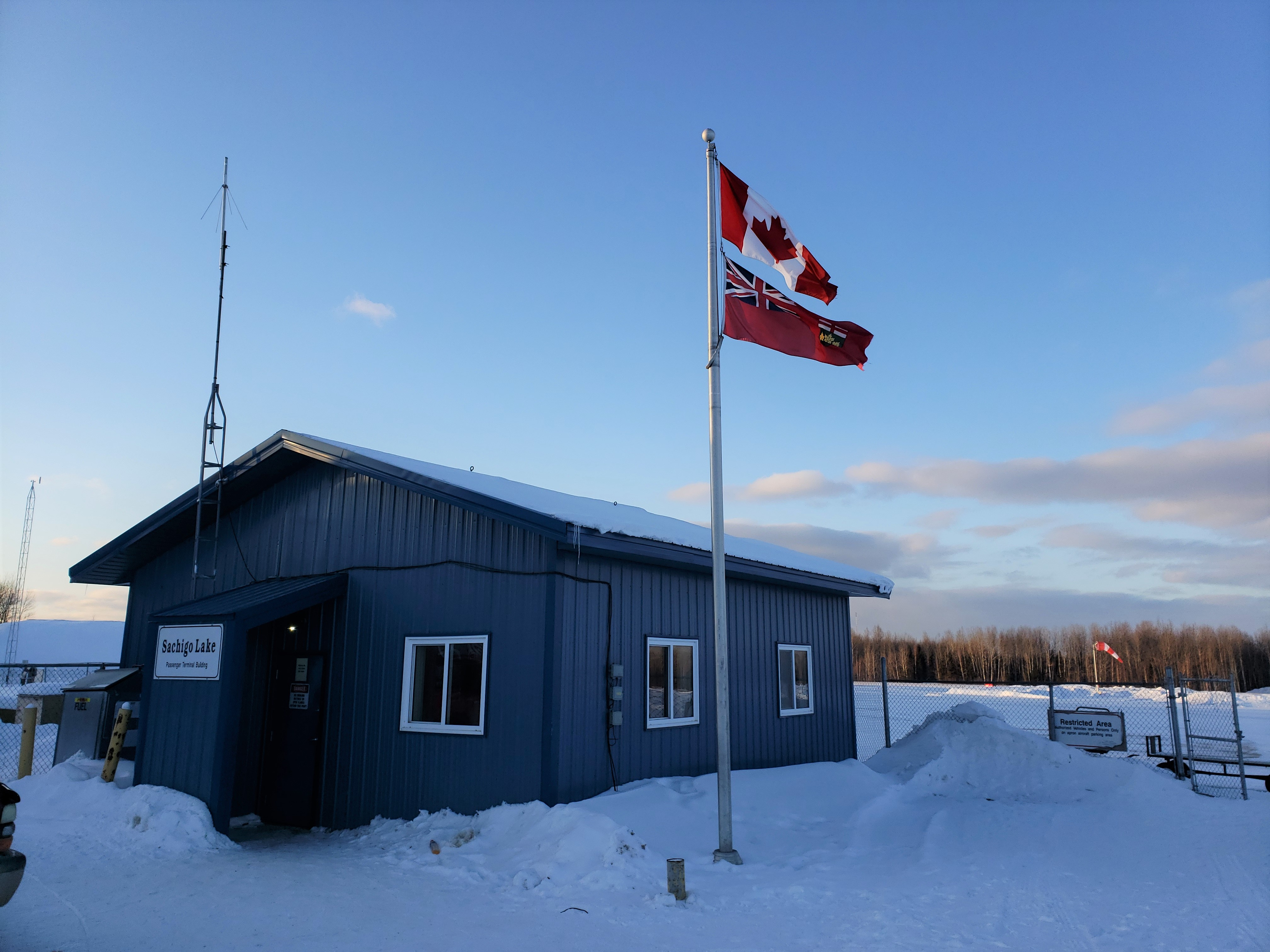 Most current picture of the Airport Terminal Building. As of February 22, 2019